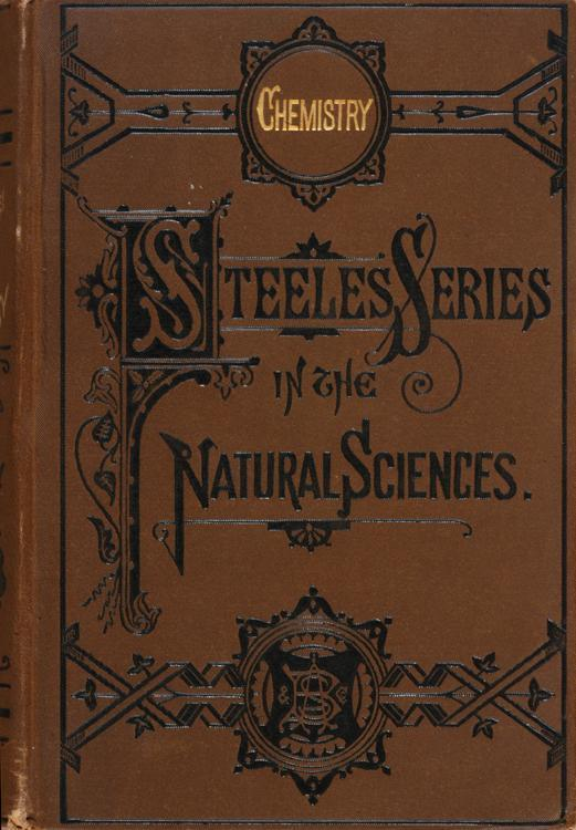 Front cover from Fourteen weeks in chemistry by Joel Dorman Steele, 1836-1886. New York : A.S. Barnes & Company, 1873.